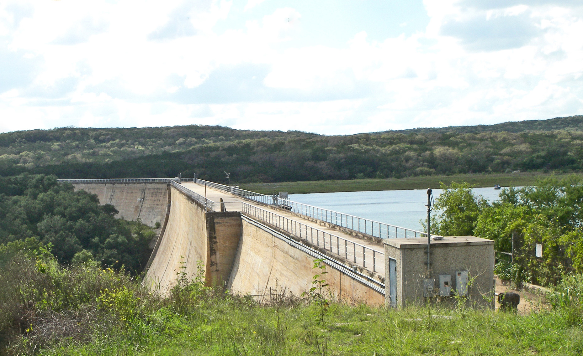 The Medina Dam located in northeastern Medina County, Texas, United States impounds Medina Lake on the Medina River. The dam was listed on the National Register of Historic Places on March 15, 1976.